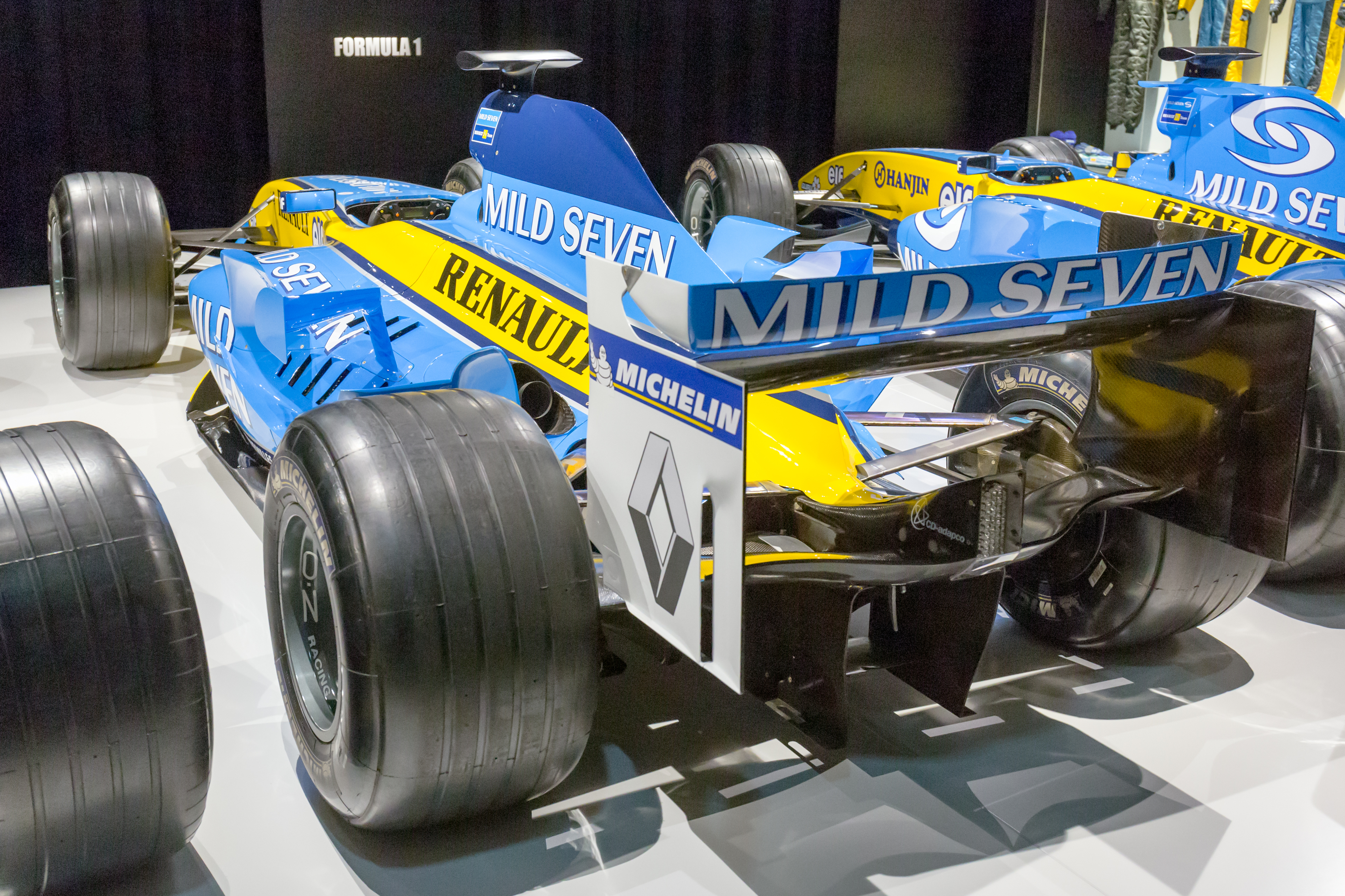 Museo y Circuito Fernando Alonso: 2003 Renault R23B of Fernando Alonso